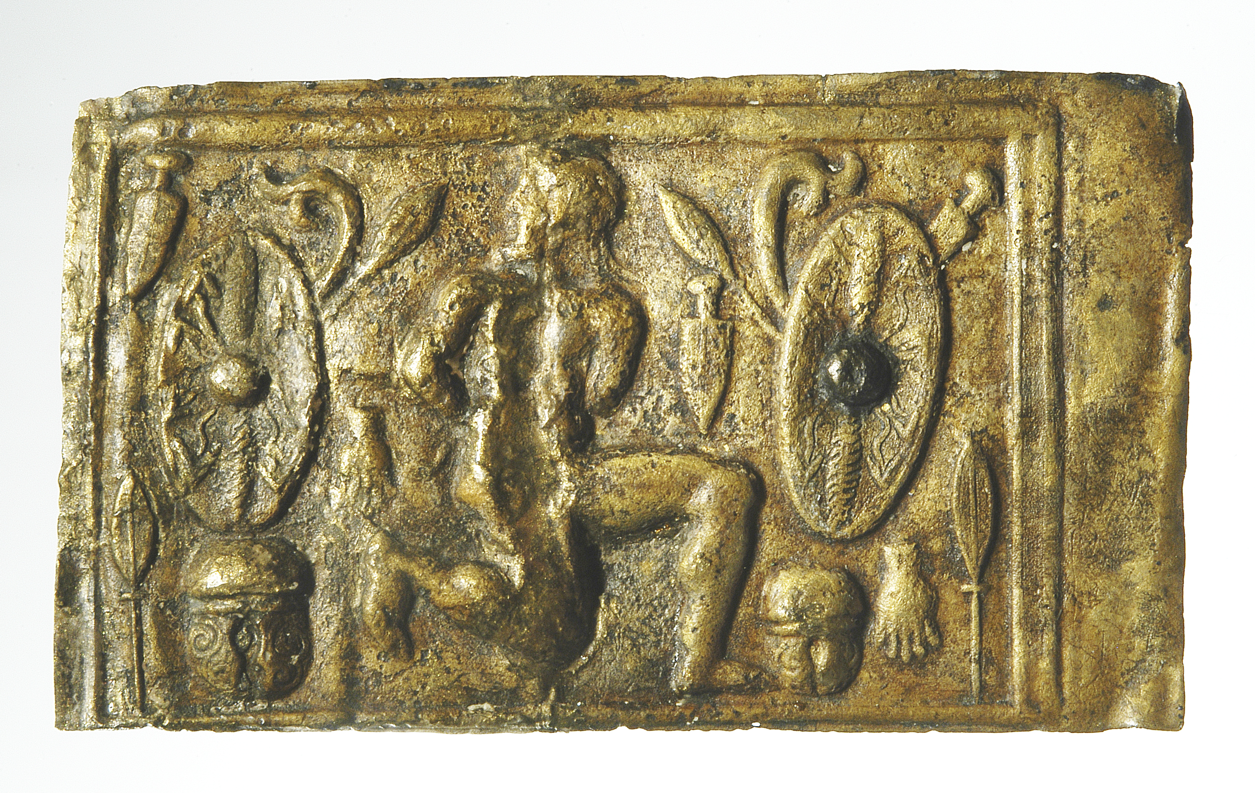 Bronze part of scabbard fittings of a gladius, a Roman sword. Depicted is a naked, kneeling man surrounded by soldiers equipment.